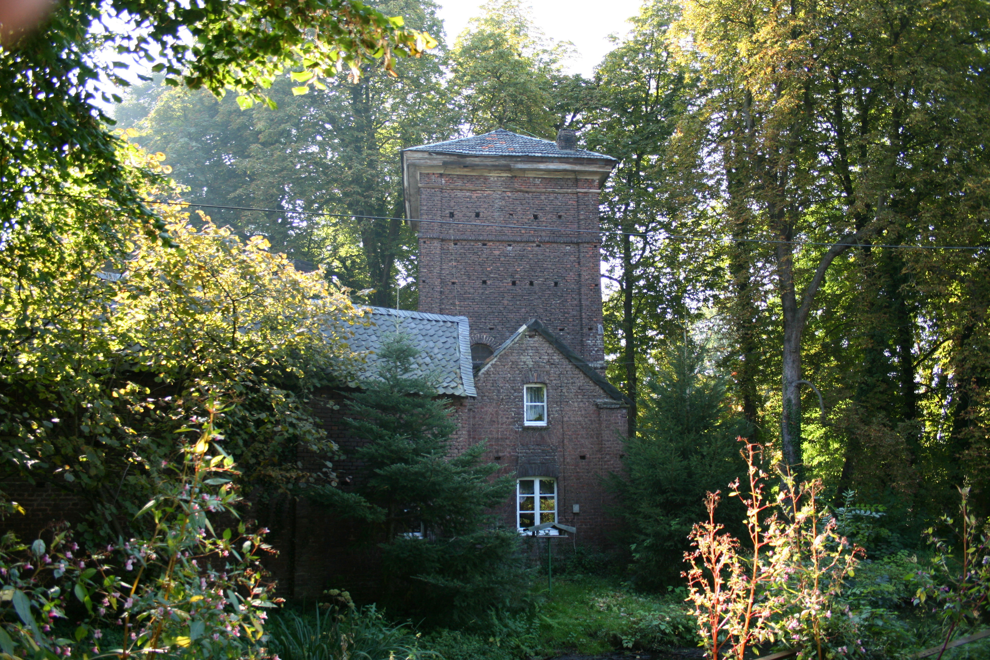 Outbuilding with dovecote